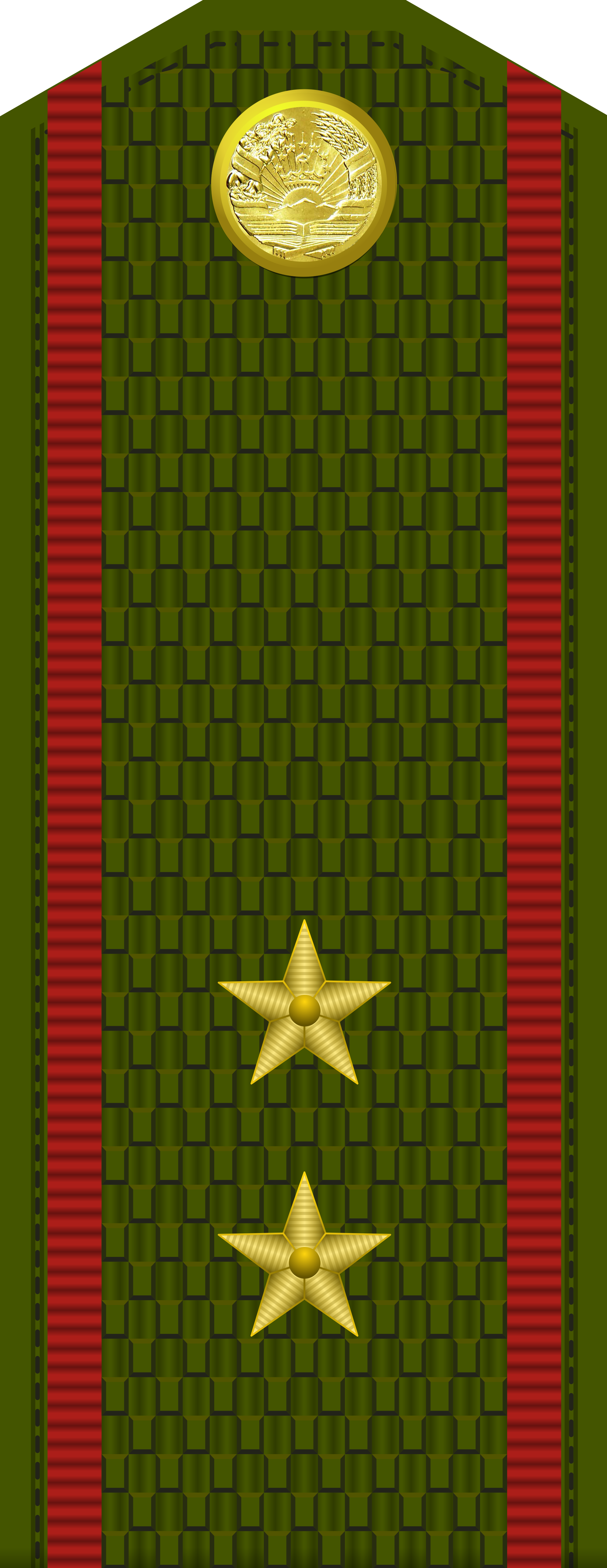 Тоҷикӣ: Rank insignia of Ensign for the Tajikistan Army